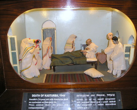 An excellent model